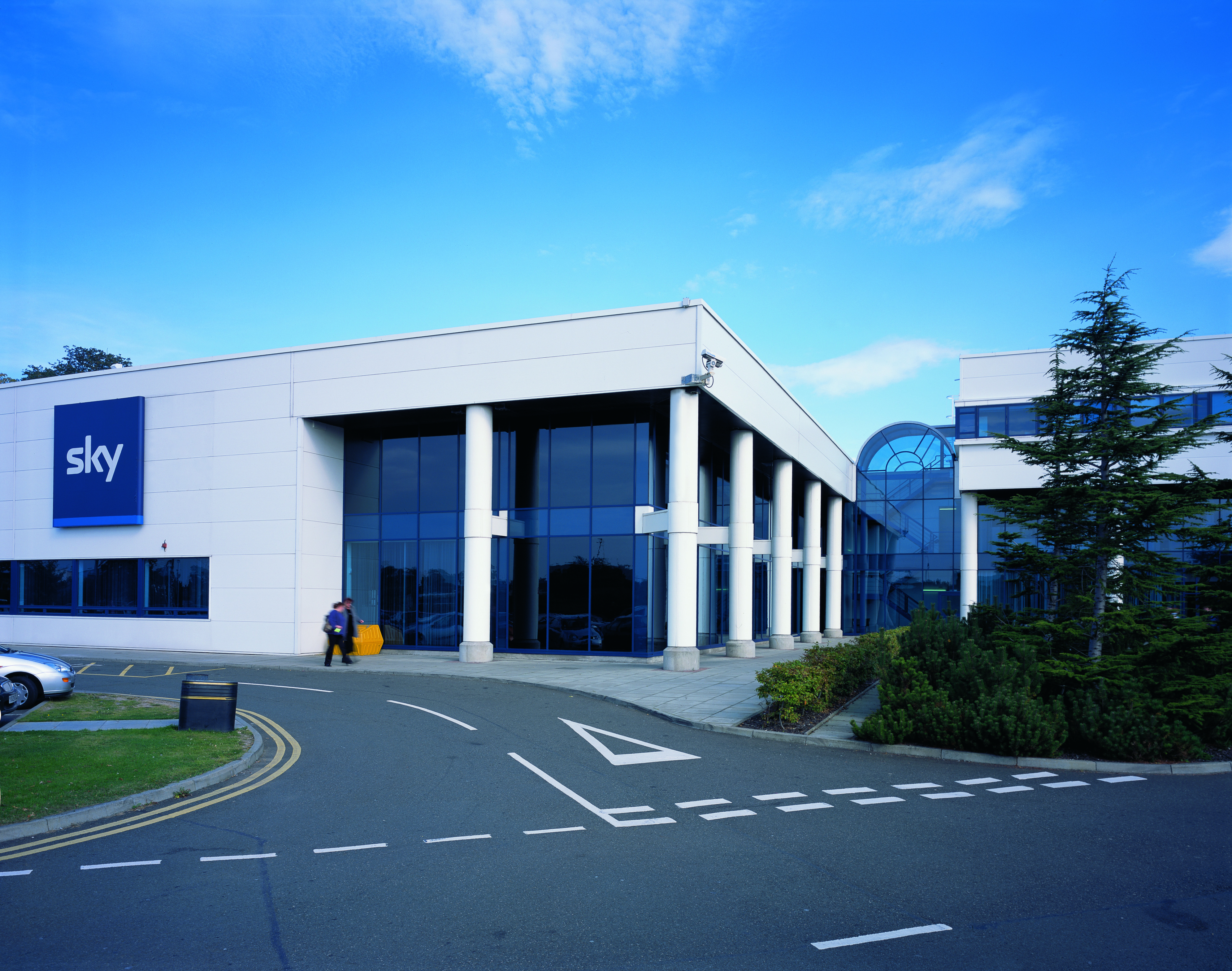 The SKY headquarters building in Dunfermline, Fife, Scotland